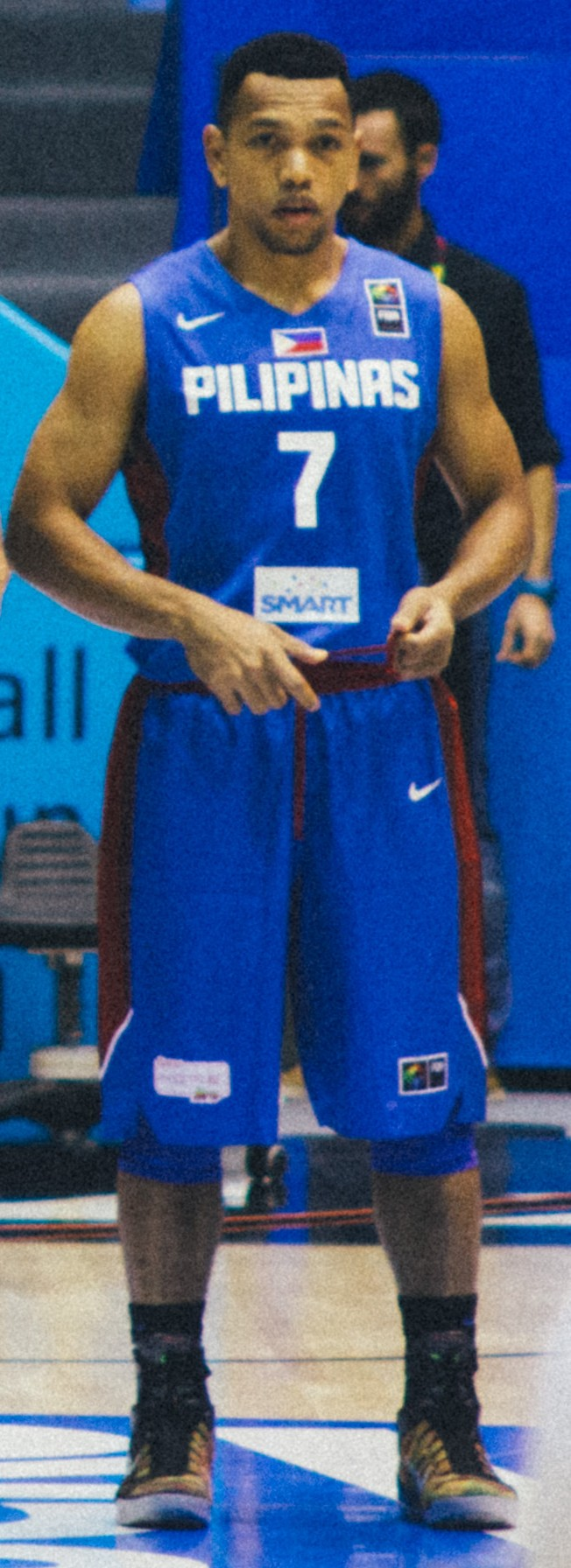 Gilas Pilipinas